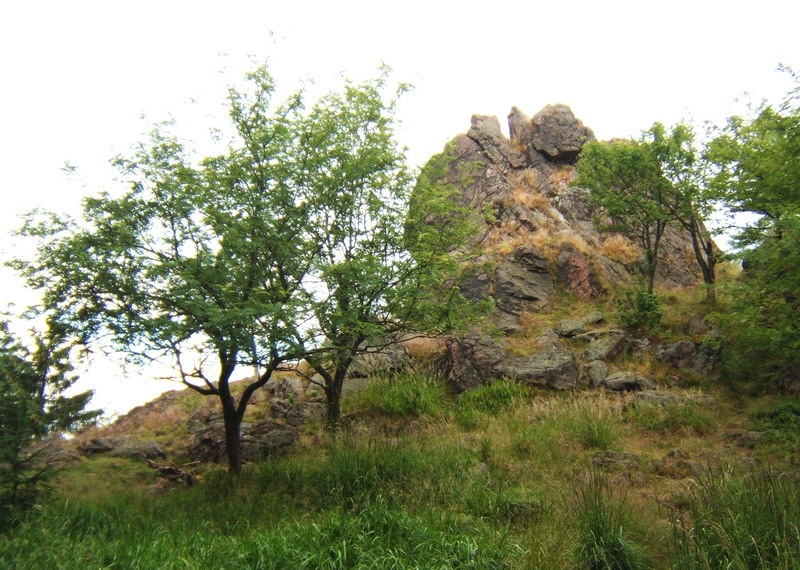 Gebrannter Stein, Thuringian Forest, Germany